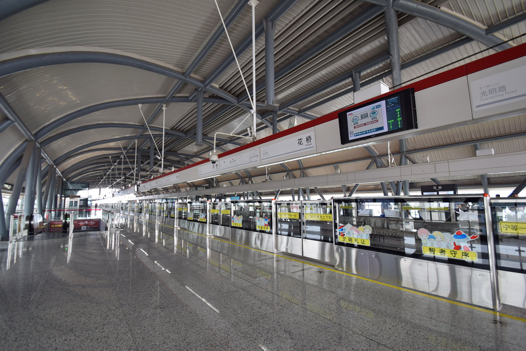 Line 11 Platform of Huaqiao Station, Shanghai Metro